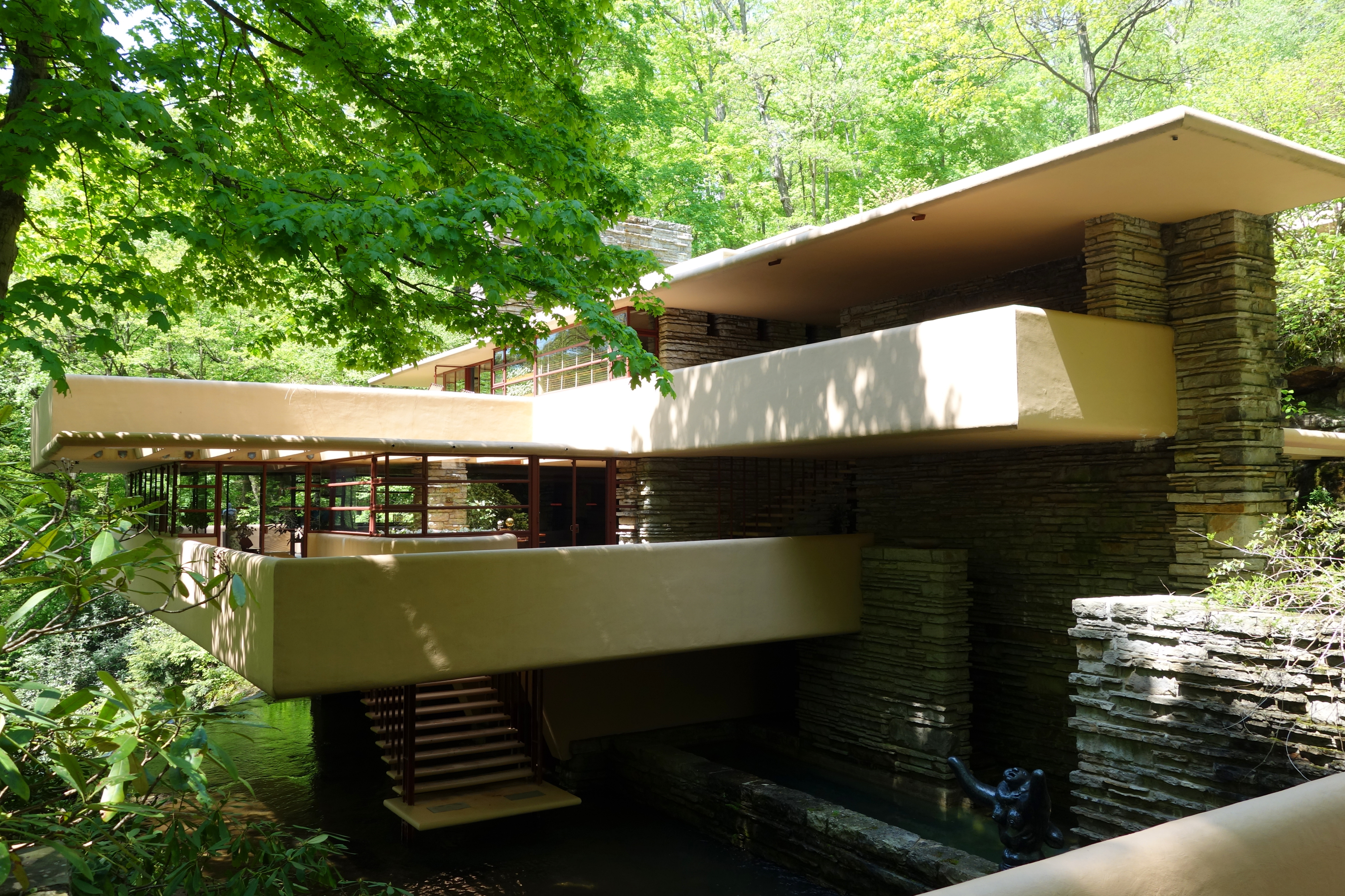 Fallingwater (Kaufmann Residence) by Frank Lloyd Wright. Photography of the exterior was permitted without restriction.